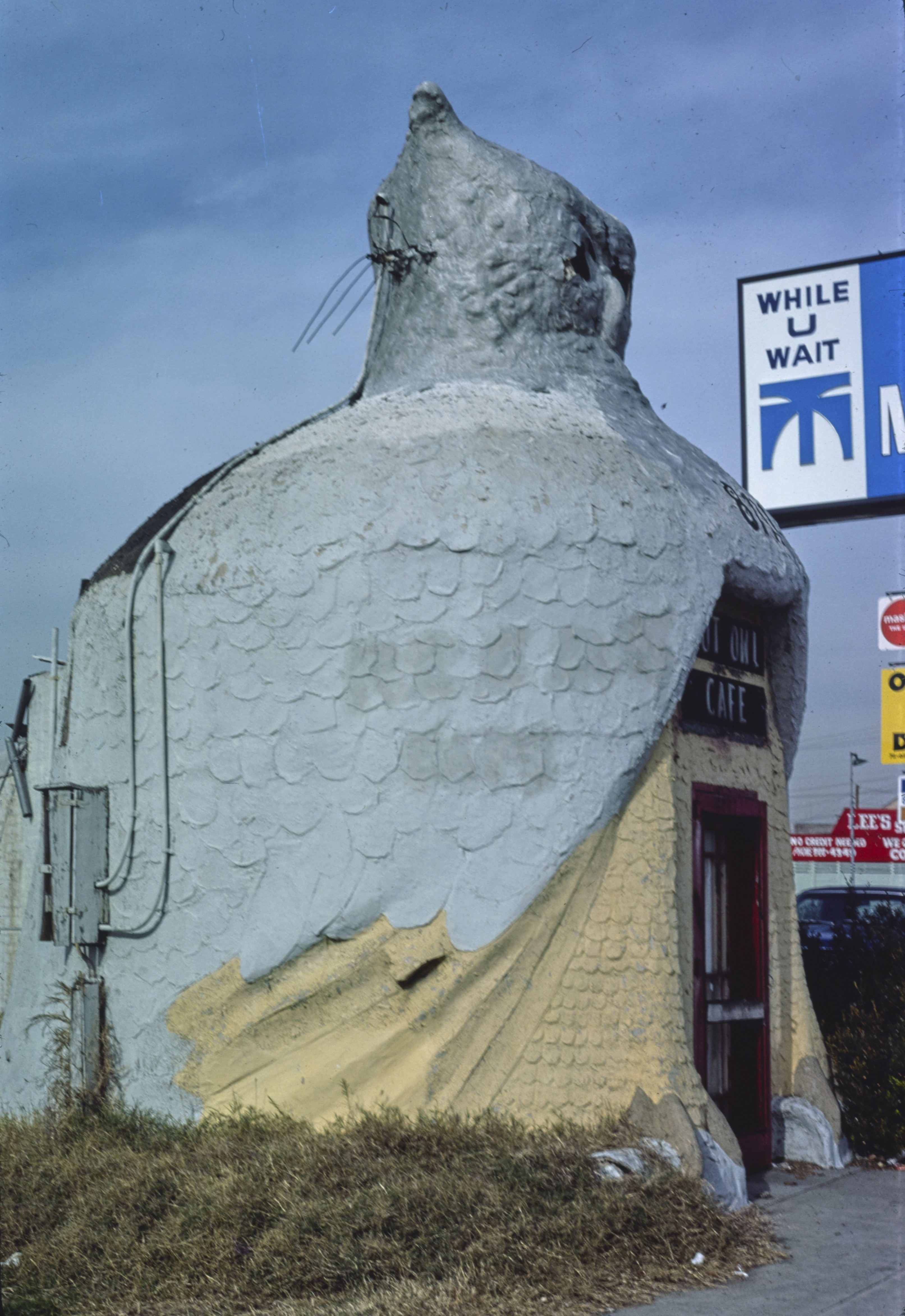 The Hoot Owl cafe was located at 8711 Long Beach Blvd. in South Gate, California